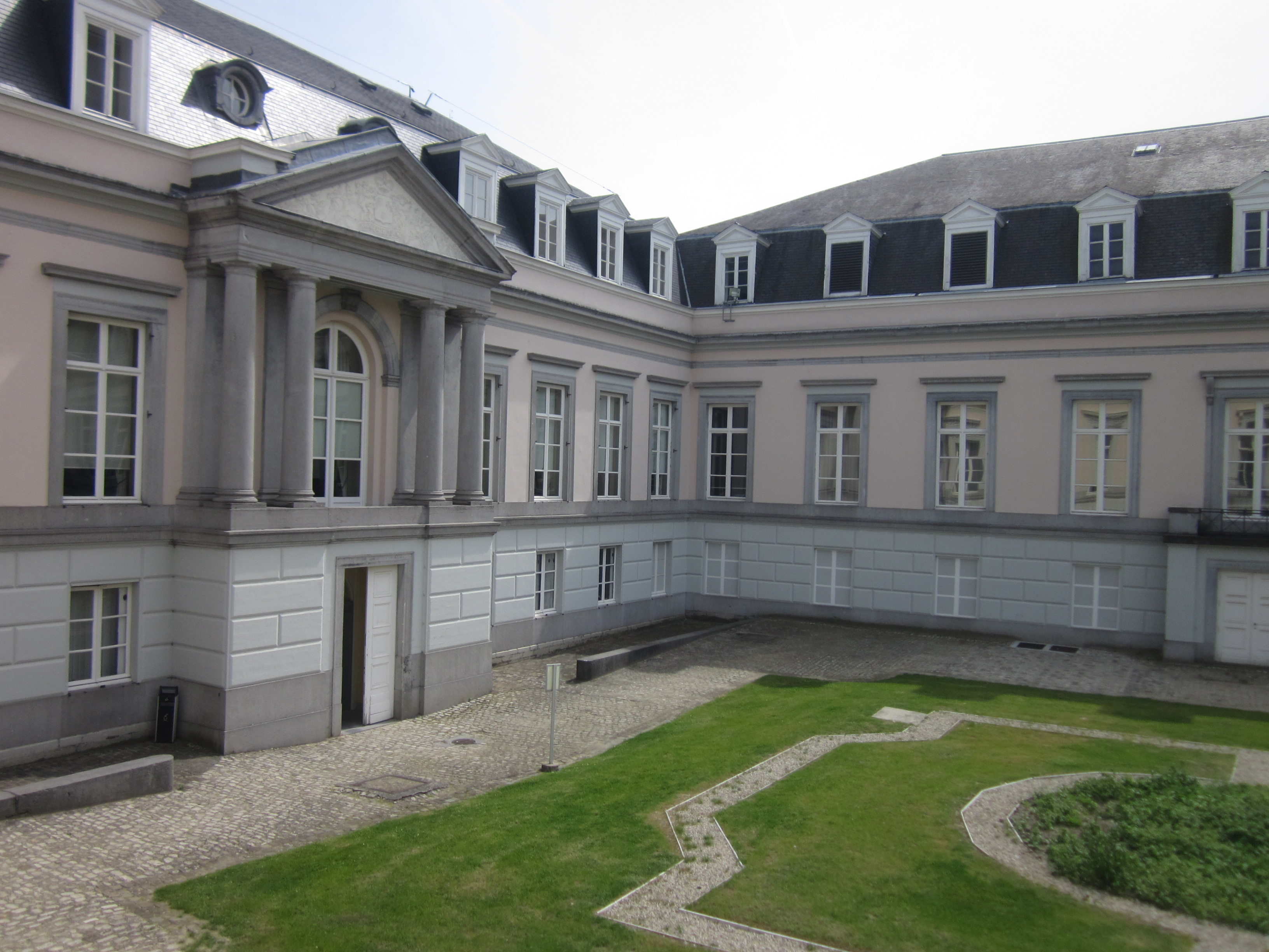 Palais d'Egmont, Brussels